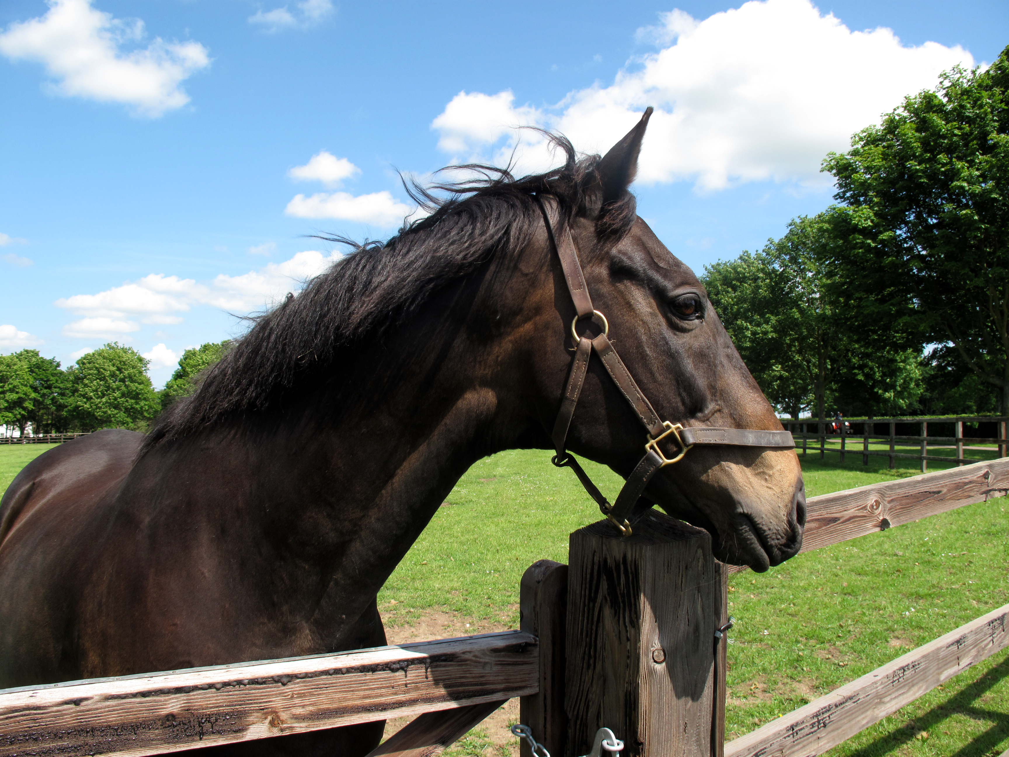 Amberleigh House resides at the National Stud in Newmarket, UK, where he enjoys a happy retirement.